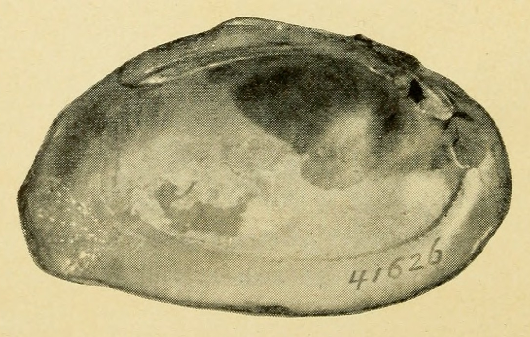 internal shell structure of Quincuncina burkei